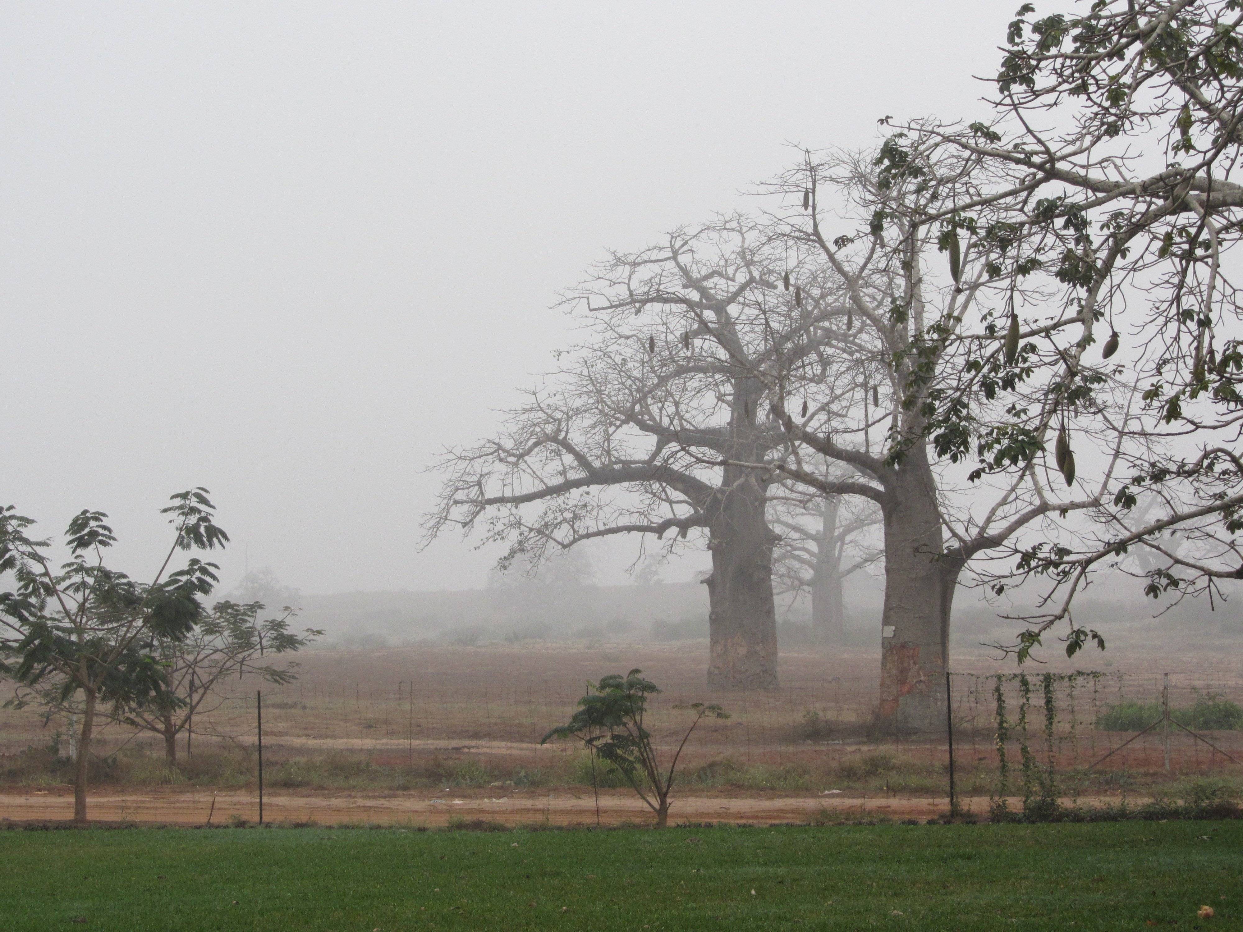 Imbondeiro (Baobab) in the kacimbo fog, a late August afternoon in Luanda Province, Angola